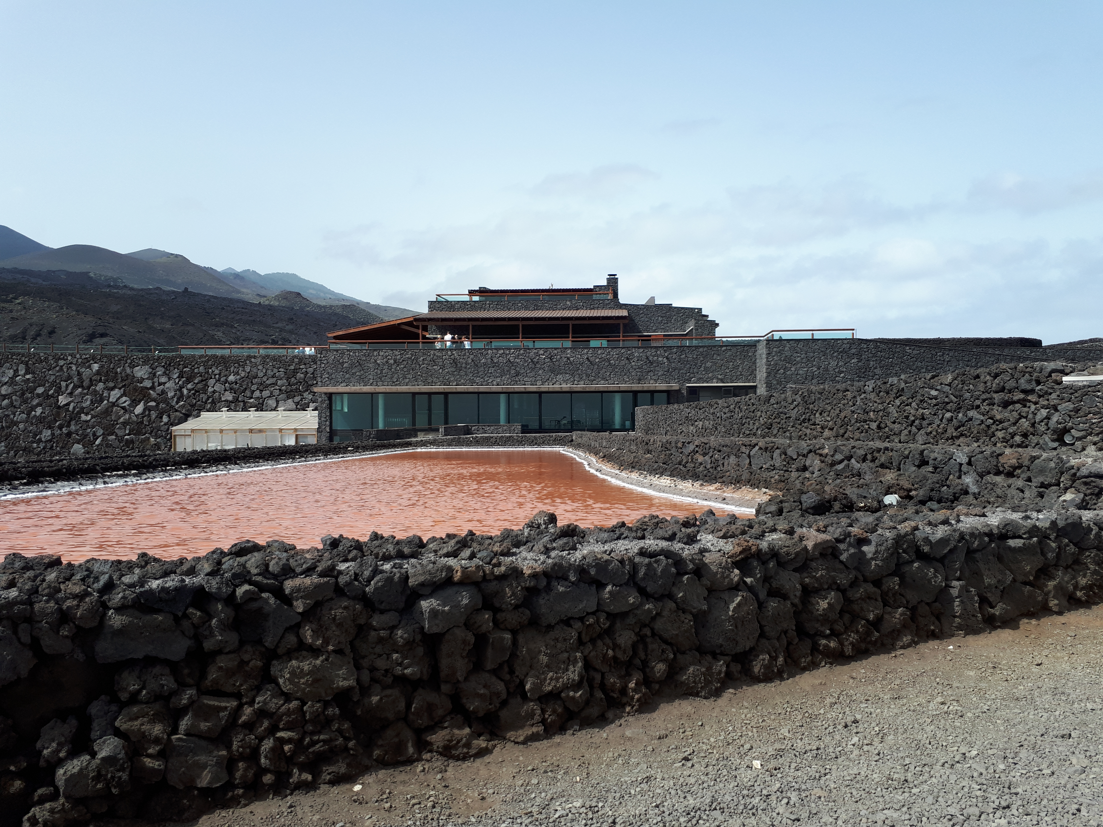 Basement of the Visitor Center Centro de Interpretación Salinas de Fuencaliente